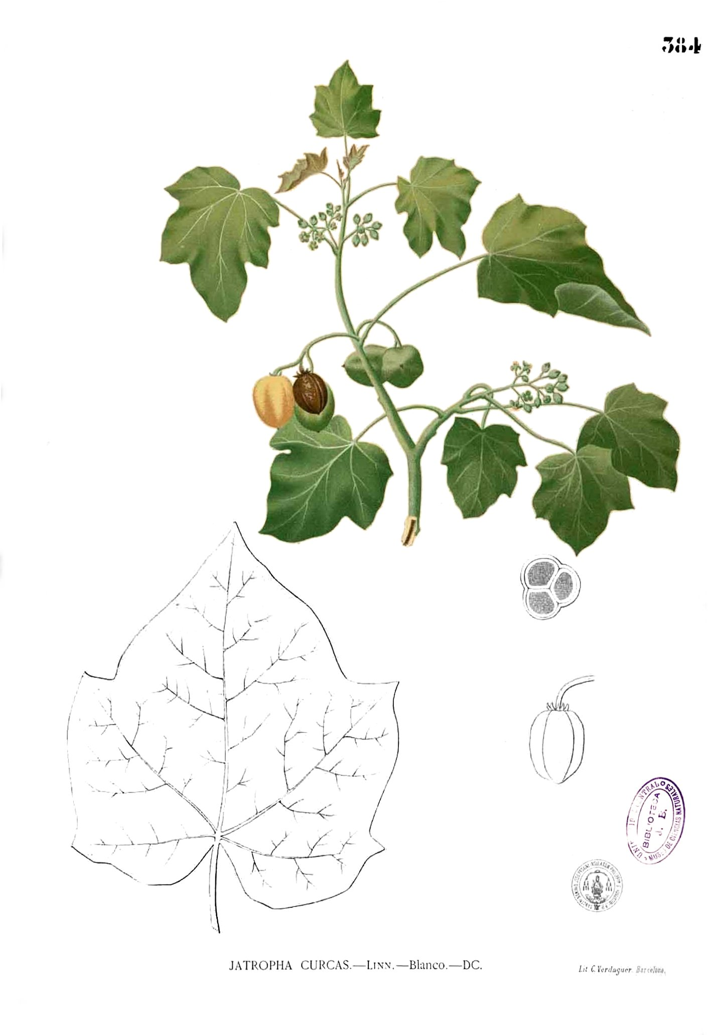 Jatropha curcas Plate from book